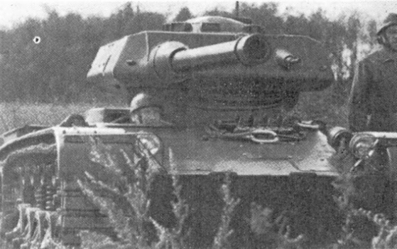 Even with the 90-millimeter gun